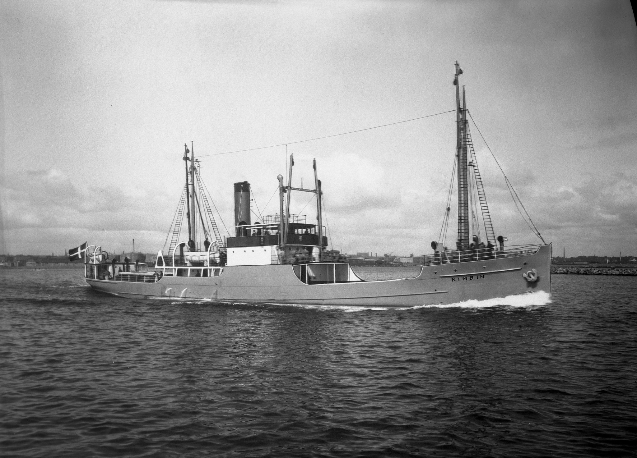 MV Nimbin when built